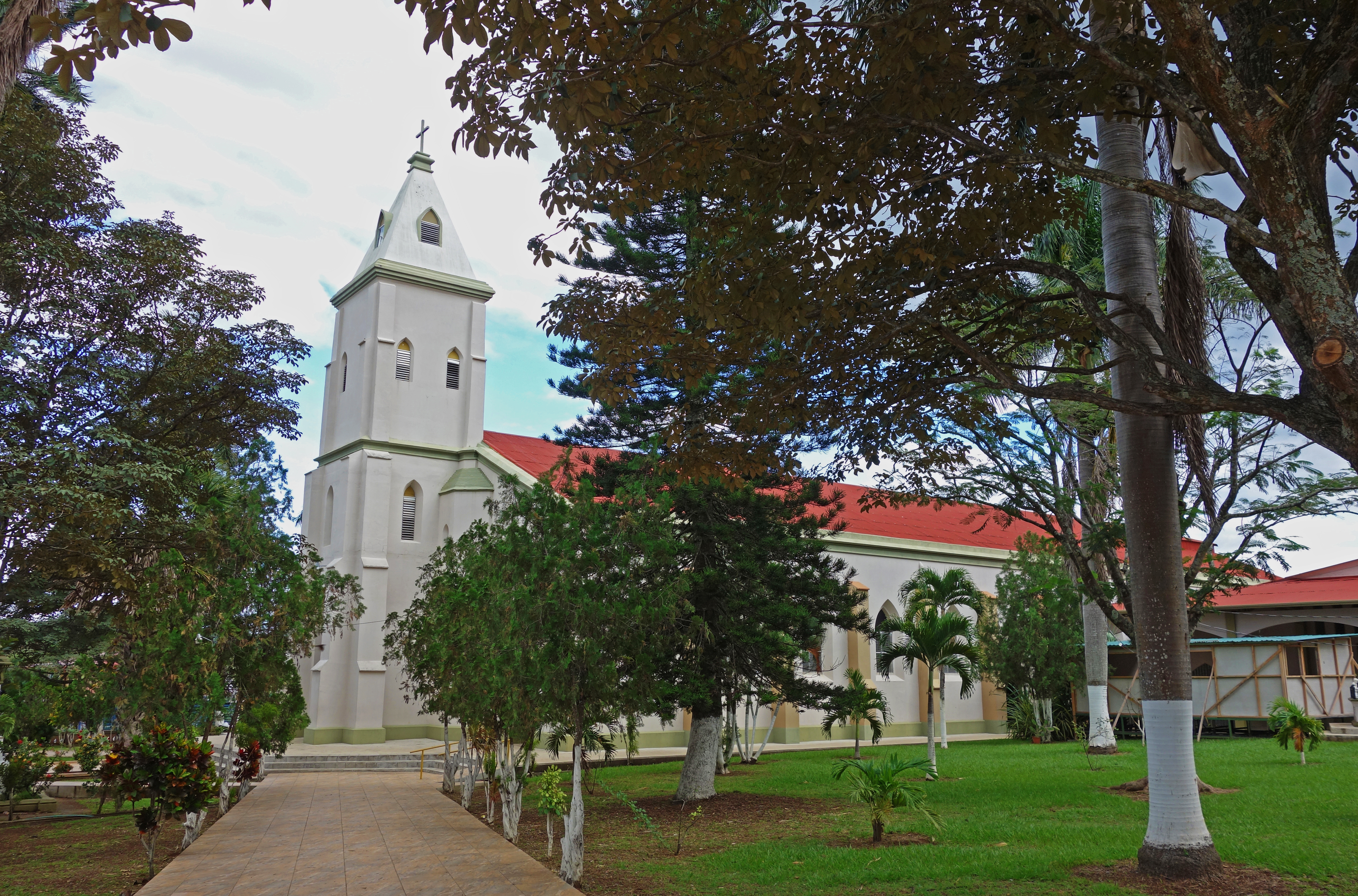 The church in downtown Atenas, Costa Rica